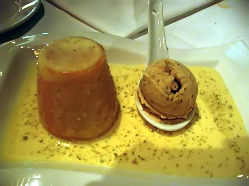 Steamed Apple Charlotte with Wattle Seed Ice Cream with a Creme Anglaise. Mietta's Review Website